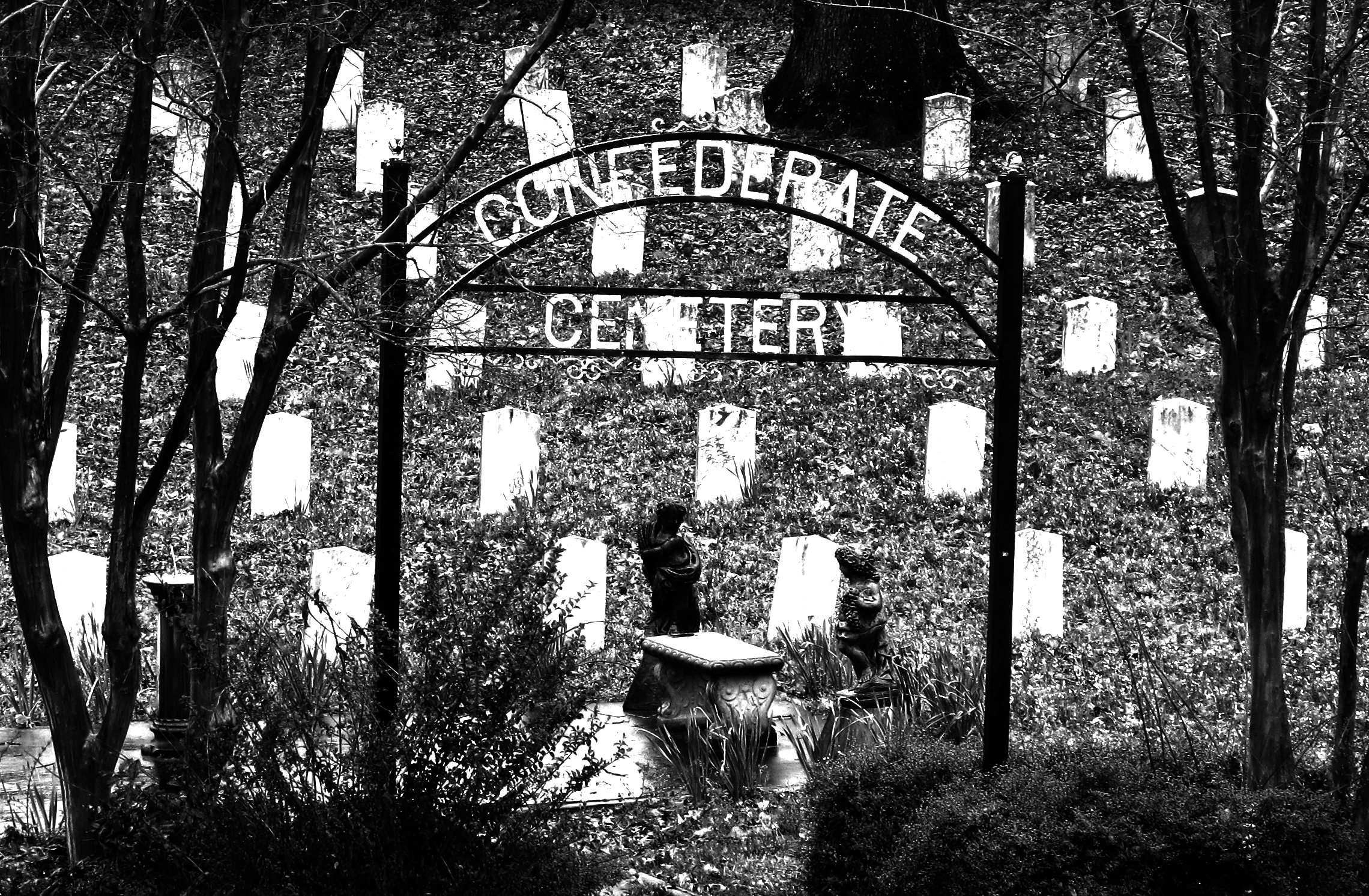 Confederate Cemetery in Grenada, Mississippi.